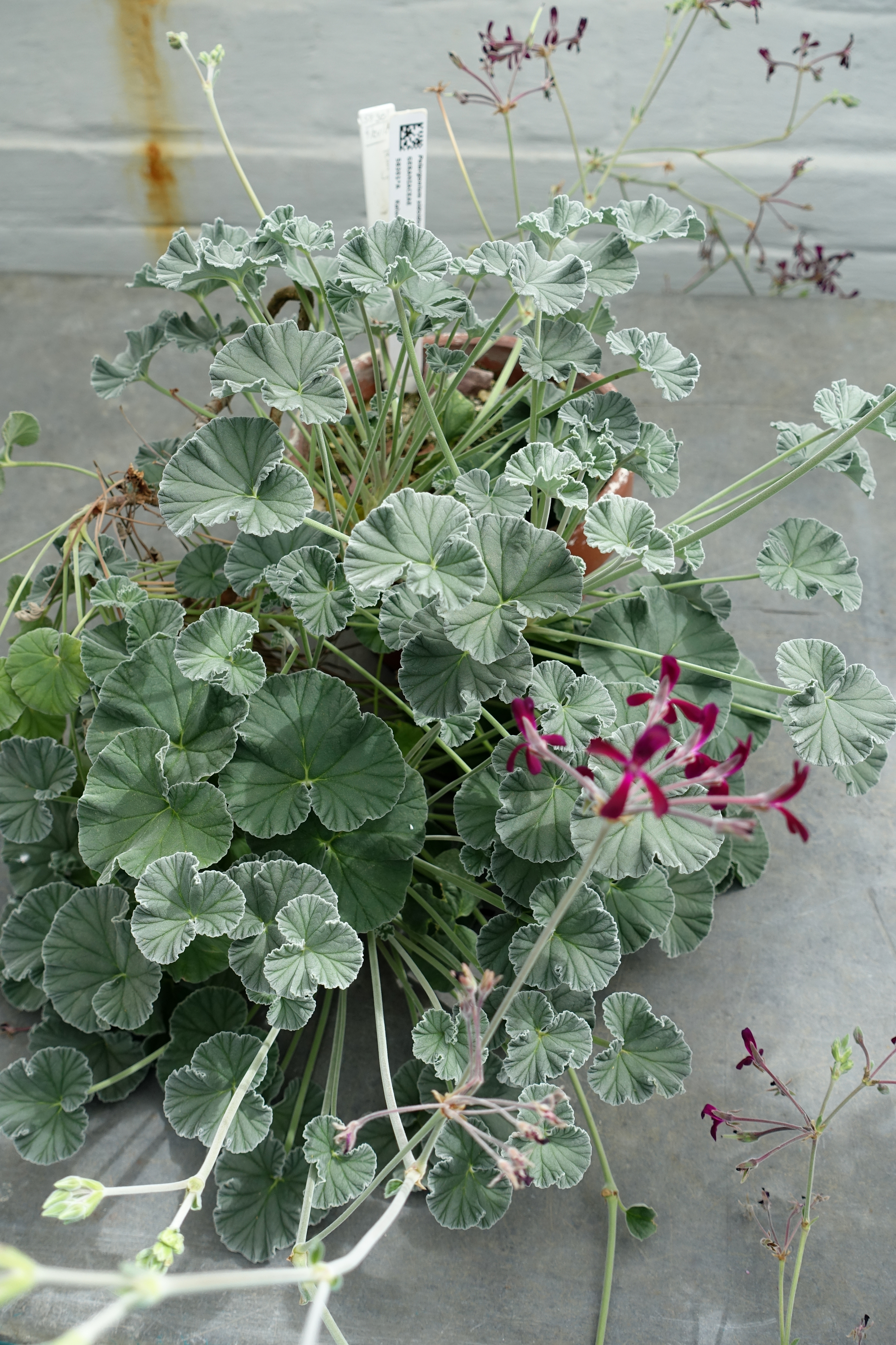 Botanical specimen in the Lyman Plant House, Smith College, Northampton, Massachusetts, USA.